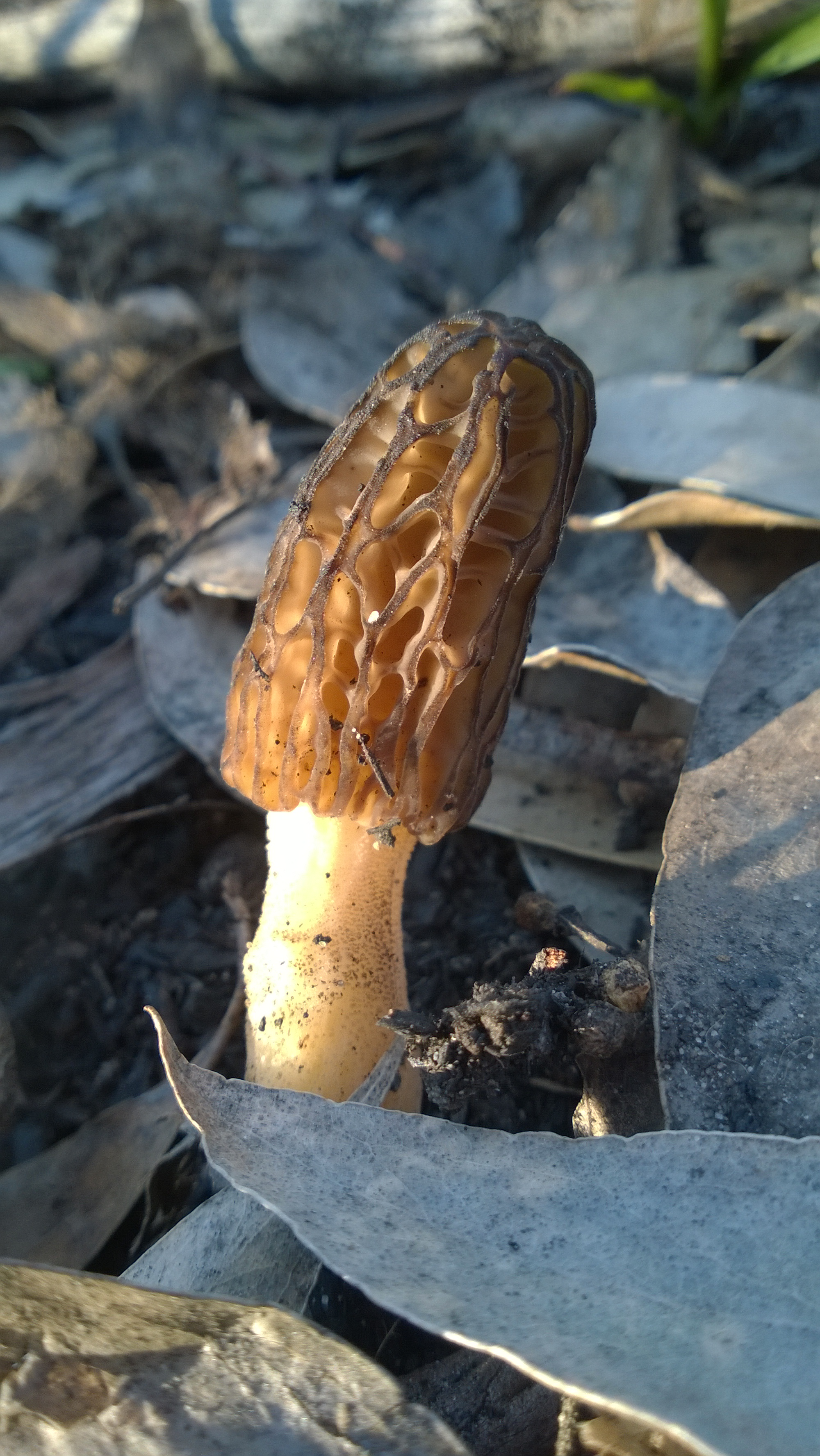 Mel 7 from South Australia burnt native forest.